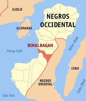 Map of Negros Occidental showing the location of Binalbagan